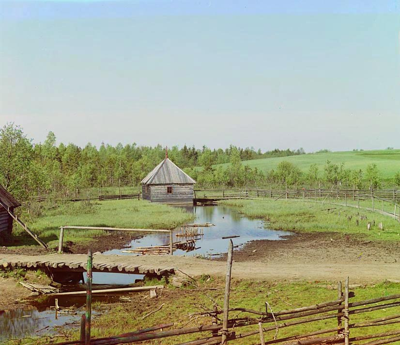 Source of the VolgaHrvatski: Izvor Volge